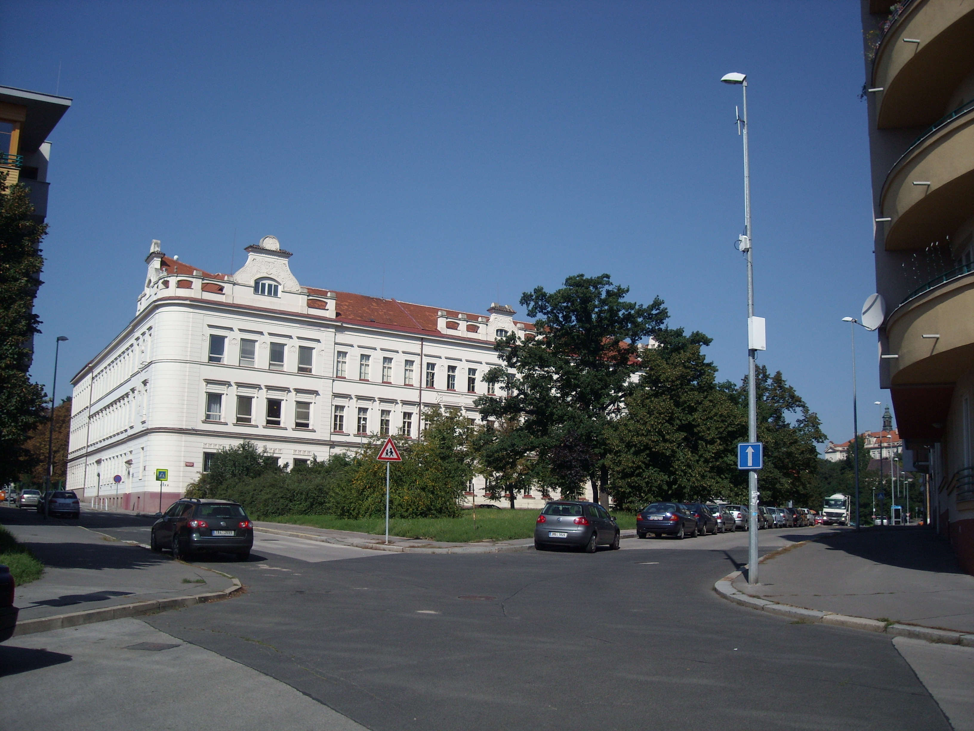 Kašparovo náměstí, Libeň, Prague